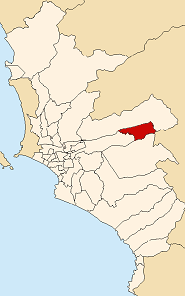 Map of Lima highlighting the Chaclacayo district in Lima.